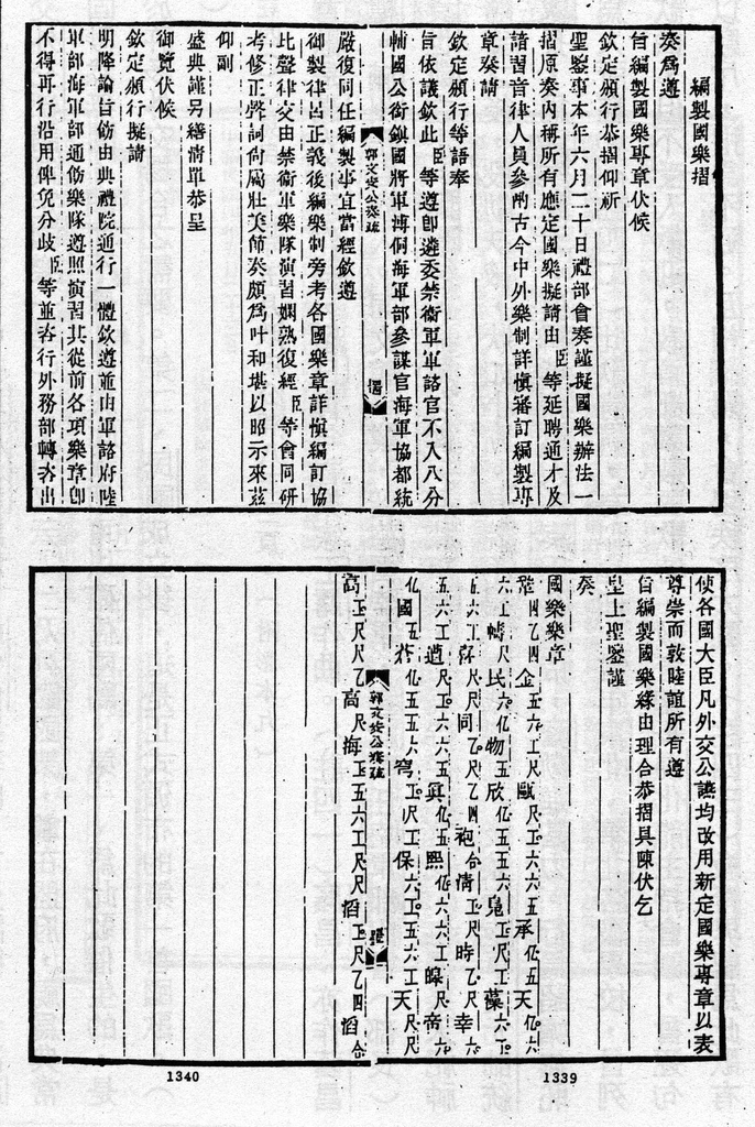 Sheet music and Gongche notation of Gong Jinou